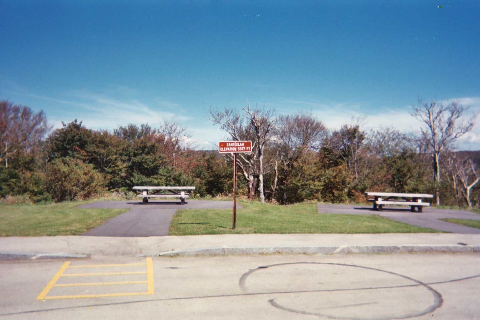 Santeelah rest stop (elevation 5,377 feet), on the Cherohala Skyway in North Carolina